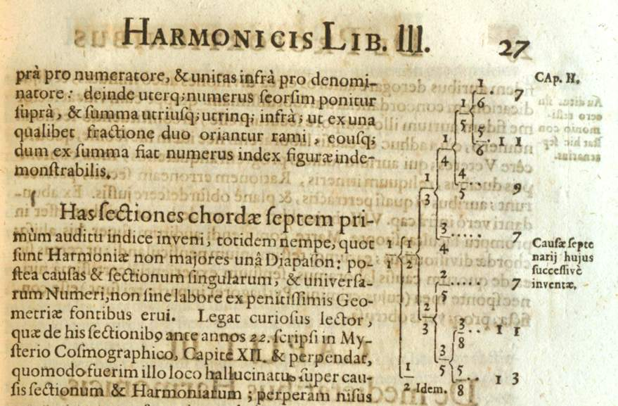 A page from J. Kepler's "Harmonices Mundi Libri V", Lib III, Chap. II ("Kepler tree")